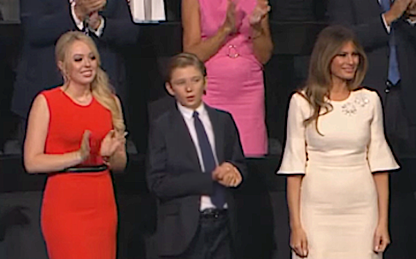 Tifanny, Barron, and Melania Trump at the RNC applauding their father for winning the Republican nomination.